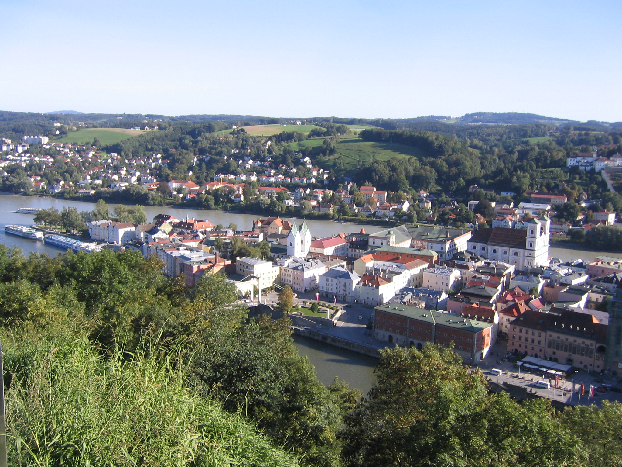 Passau, Old Town, Danube and Inn River (in the background)